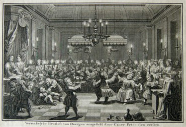 Wedding feast with dancing dwarfs, approved by Czar Peter the Great